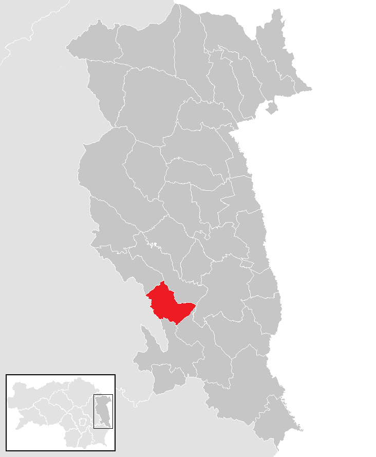 district Hartberg-Fürstenfeld